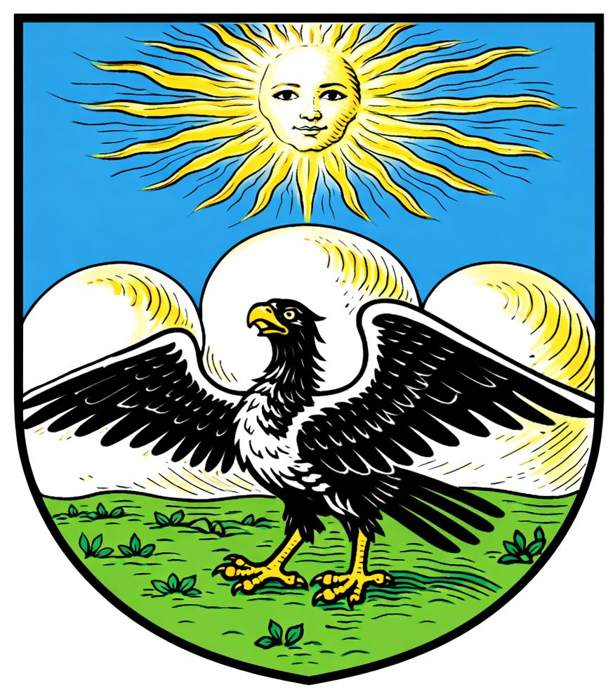 Old coats of arms of Ozyorsk (before 1945)